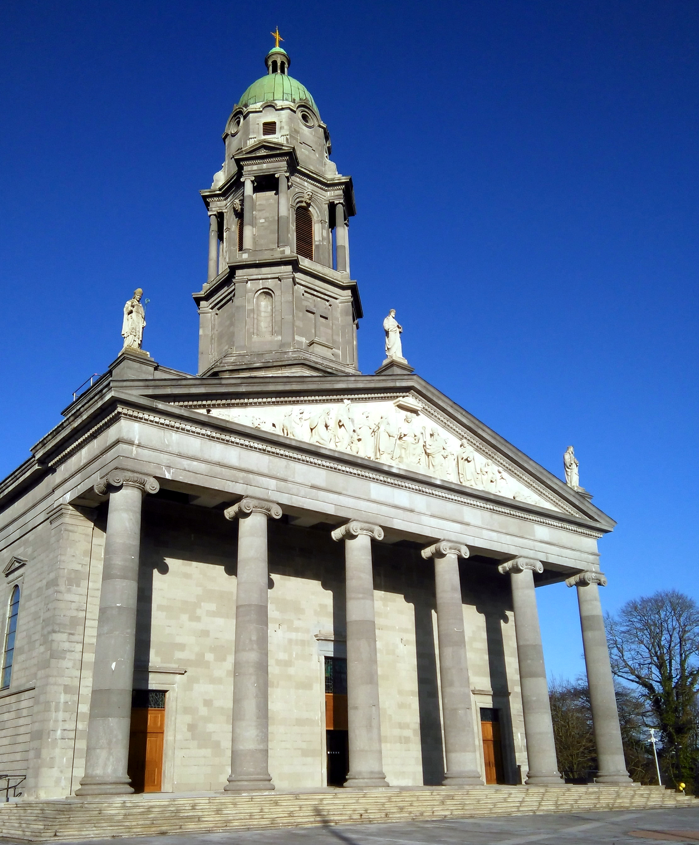 St.Mel's Cathedral, Longford (22nd January 2015)